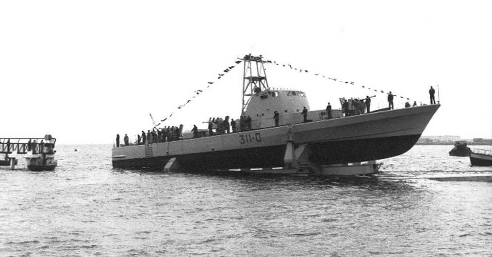 The INS Mivtach (311), thefirst vessel in the Saar Boats built for the Israel Navy is being launched.